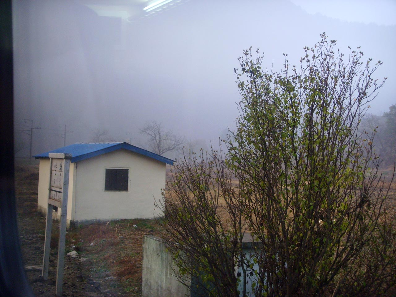 Yangwon Station (Yeongdong Line)